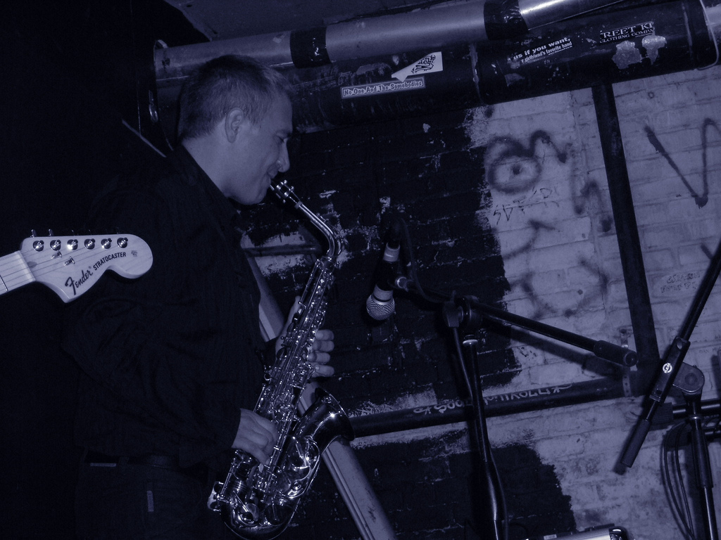 Famous spanish showman Xavier Sardà, onstage for a Saxophon solo at Siberia club, New York